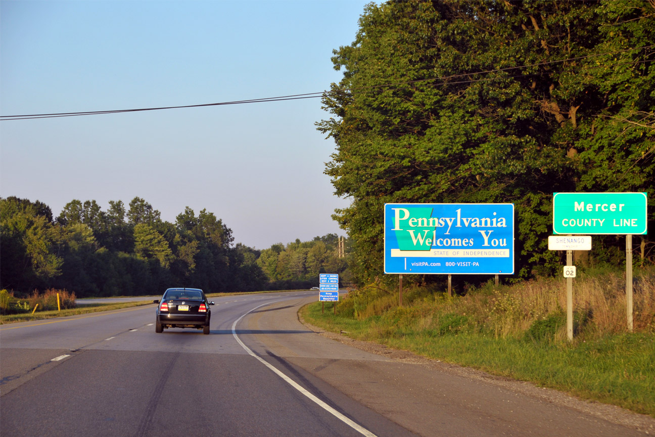 Welcome to Pennsylvania